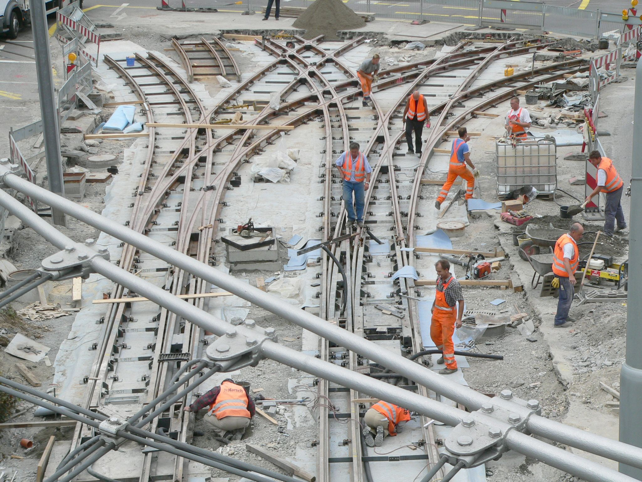 Dual gauge switches at Loewentor in Stuttgart, Germany.